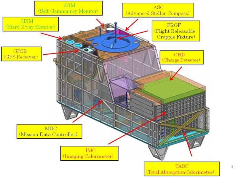 CALET PL Overview CALorimetric Electron Telescope (CALET) is an astrophysics mission that searches for signatures of dark matter and provides the highest energy direct measurements of the cosmic ray electron spectrum in order to observe discrete sources of high energy particle acceleration in our local region of the Galaxy.